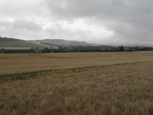 Tarvit Mill from Cupar Muir Grey buildings on the River Eden, hardly visible in the wet, grey August gloom beyond the barley.